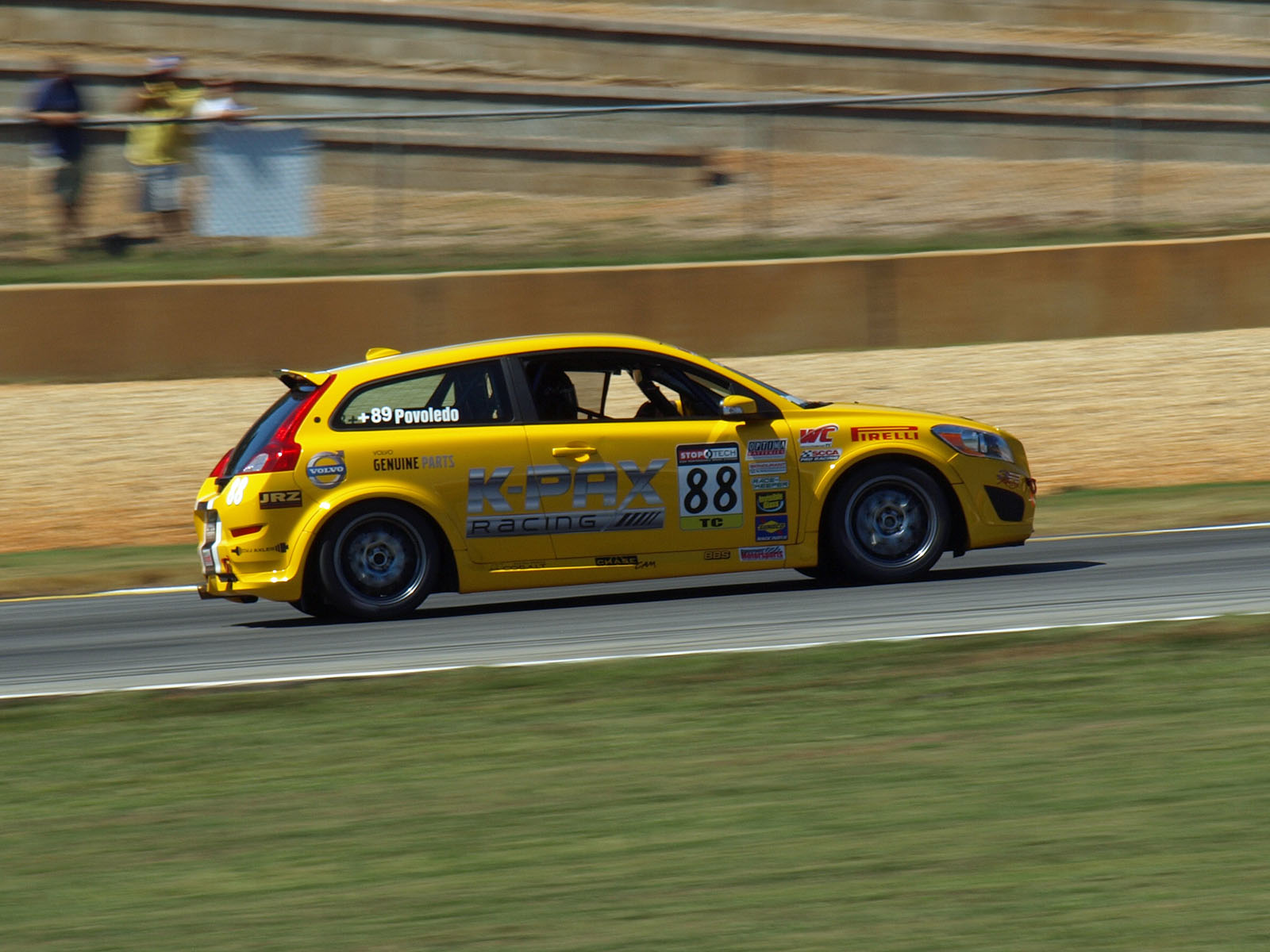 Aaron Povoledo's Touring-class Volvo C30 during the Pirelli World Challenge race at the 2011 Petit Le Mans weekend at Road Atlanta.